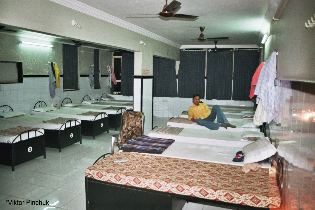 Hostel in Surat (India), photo from V. Pinchuk's book "Indian Dreams",ISBN 978-5-9909912-6-2